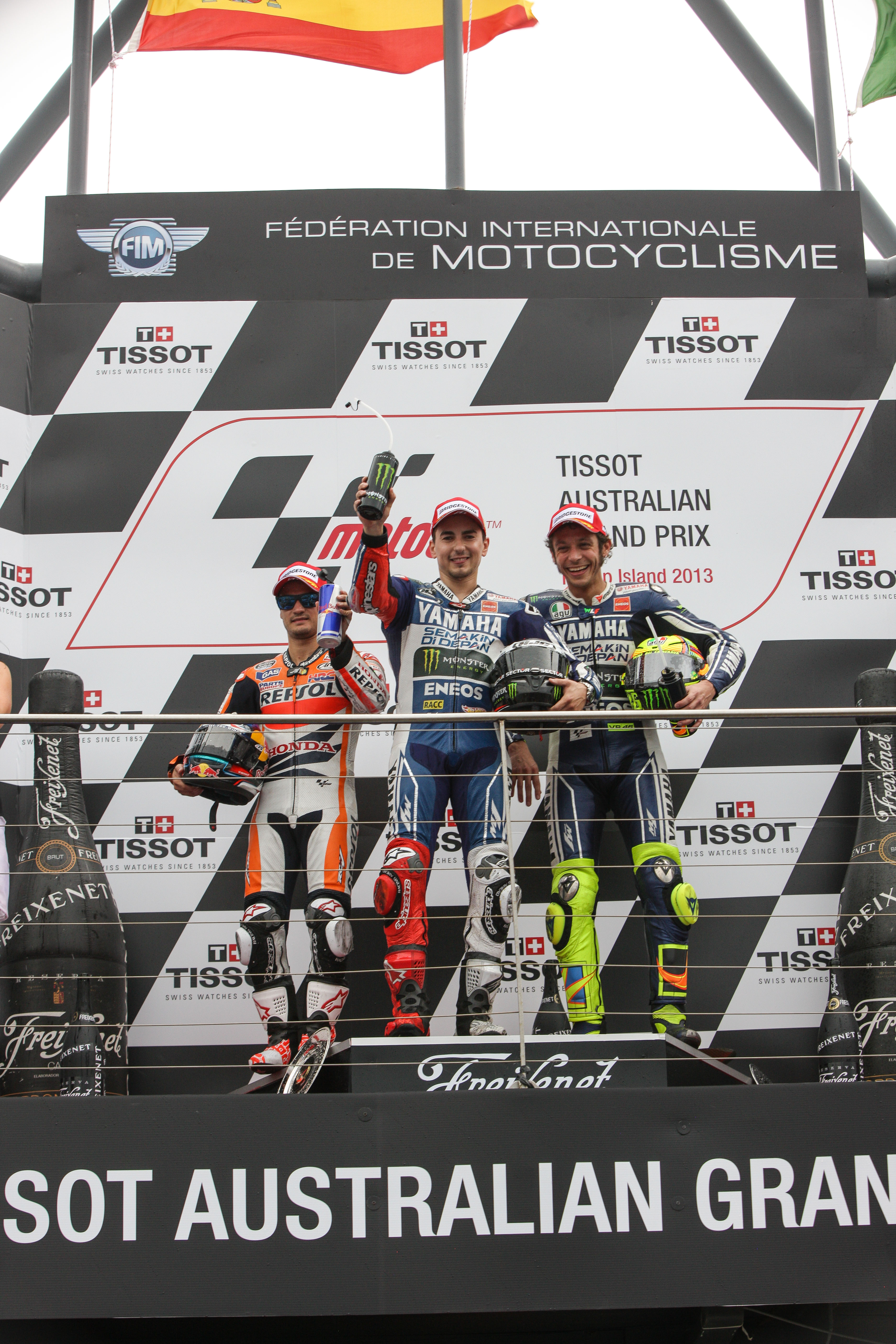 Dani Pedrosa, Jorge Lorenzo and Valentino Rossi, celebrating on the podium after finishing in second, first and third place at the 2013 Australian Grand Prix.